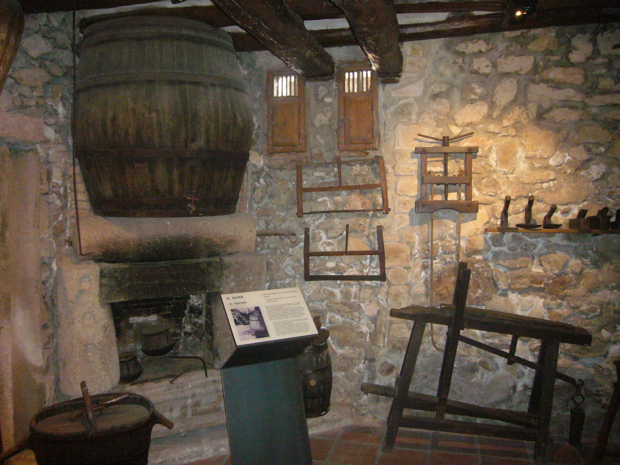 Muleteer's Museum ("Museu del Traginer") located in Igualada, Catalonia. Cooper's tools